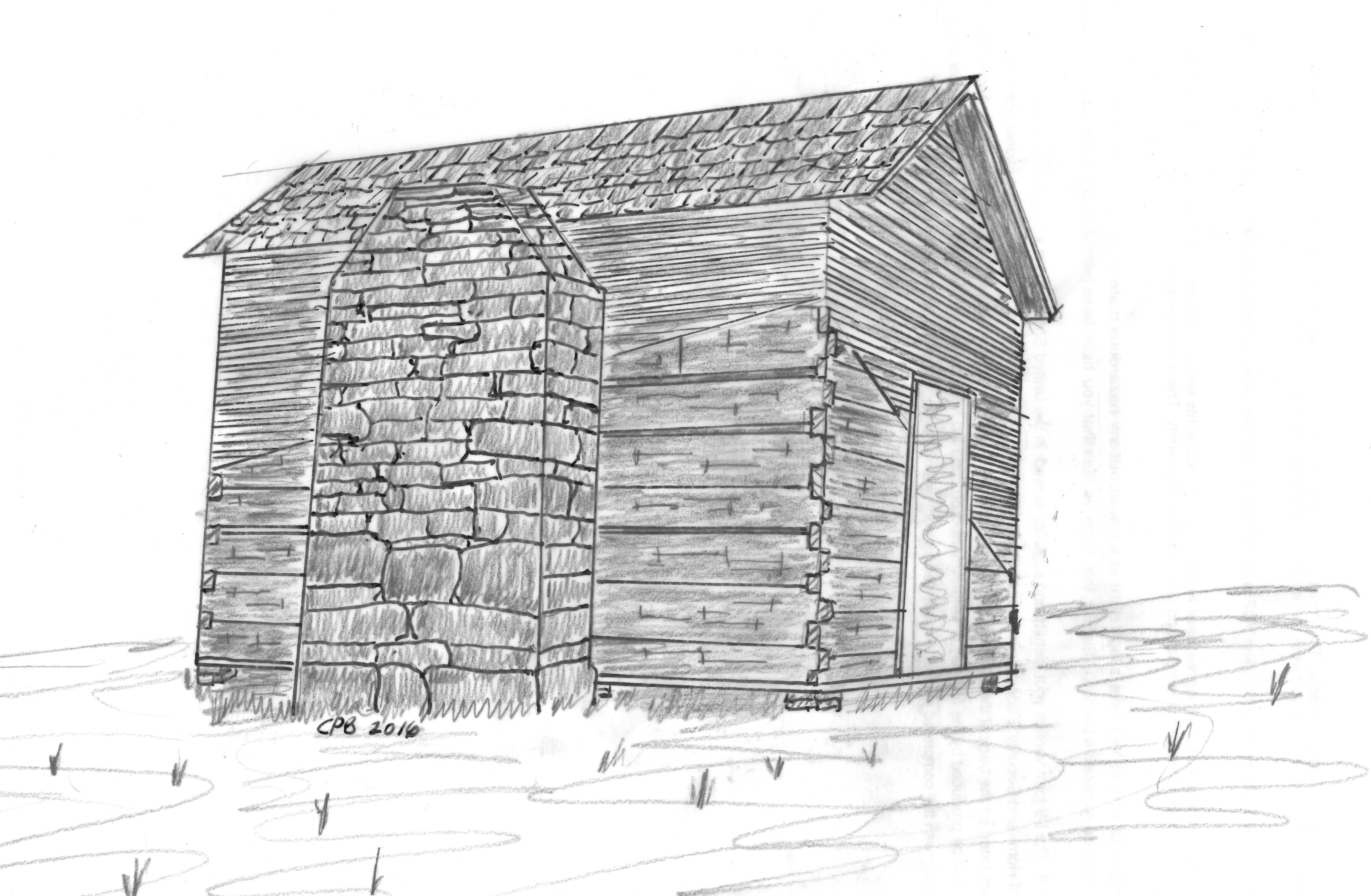 Artist rendering of the G. W. Young c1840 Cabin